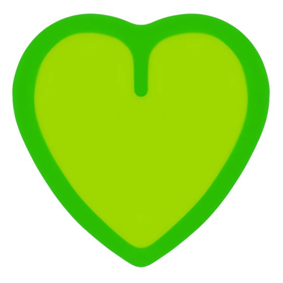 Silphium pod shape, as depicted in Cyrenne coins. There is a belief that it was the origin of the heart symbol.